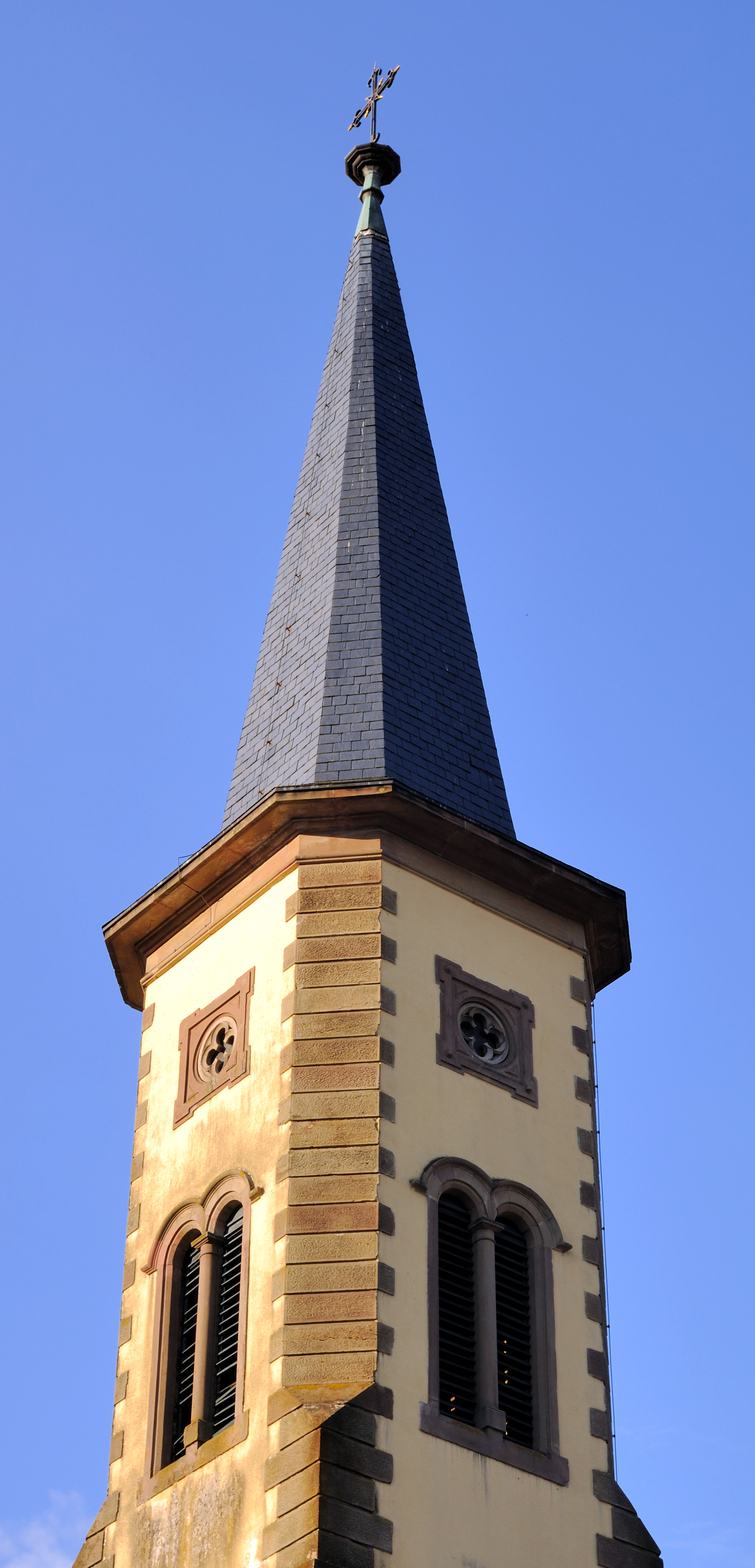 Zell: Old Catholic Church